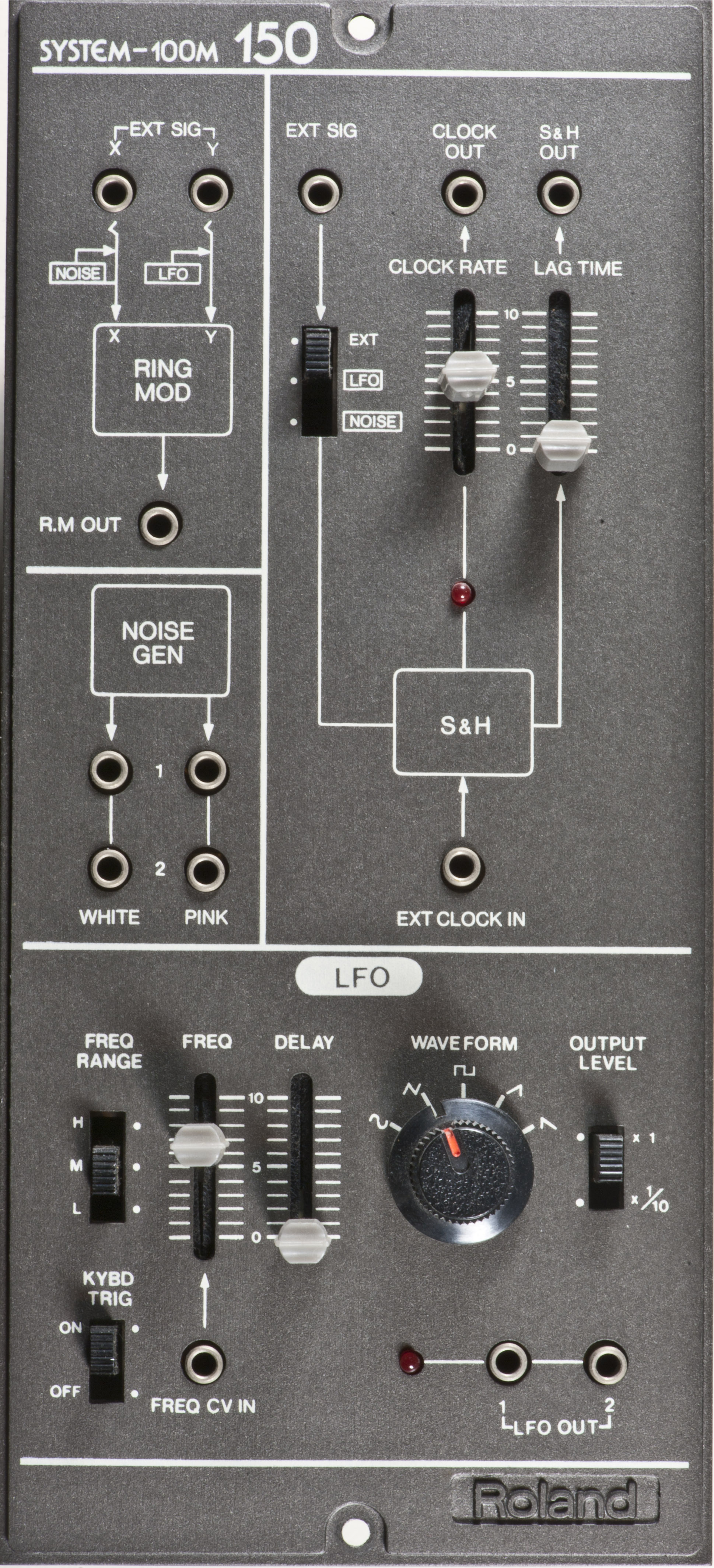 ROLAND Modular synthesizer SYSTEM-100M, Modul 150 (ring modulator, noise generator, sample & hold, LFO) The most common function of the ring modulator is to combine two VCO outputs to produce metallic, bell clanging sounds. The Sample and Hold can be used for sampling an input waveform or for producing control voltage patterns based on that waveform. The musical result is patterns of notes such as arpeggios, random notes, etc.